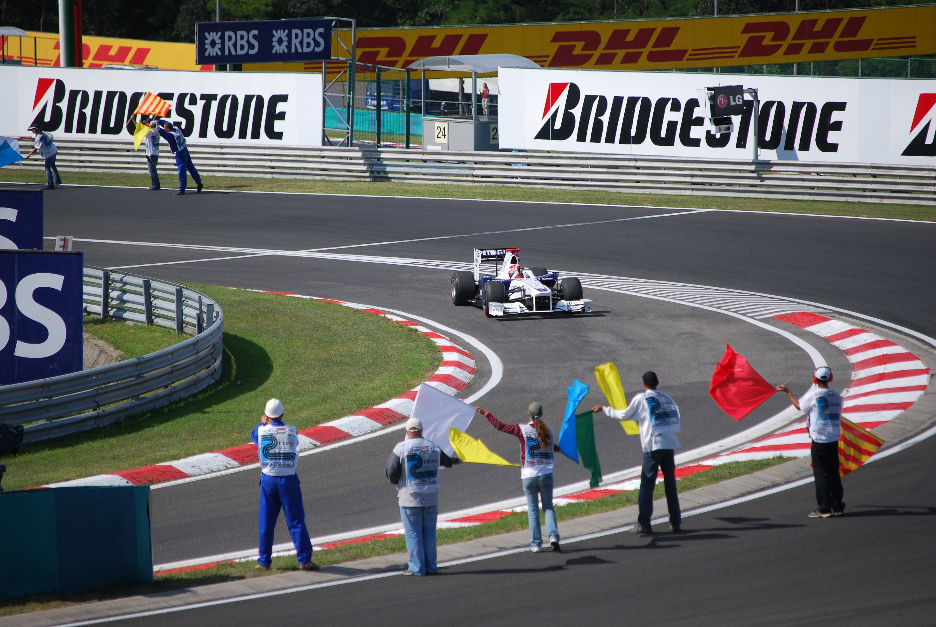 Robert Kubica after the 2009 Hungarian Grand Prix (formally the XXIV ING Magyar Nagydij)